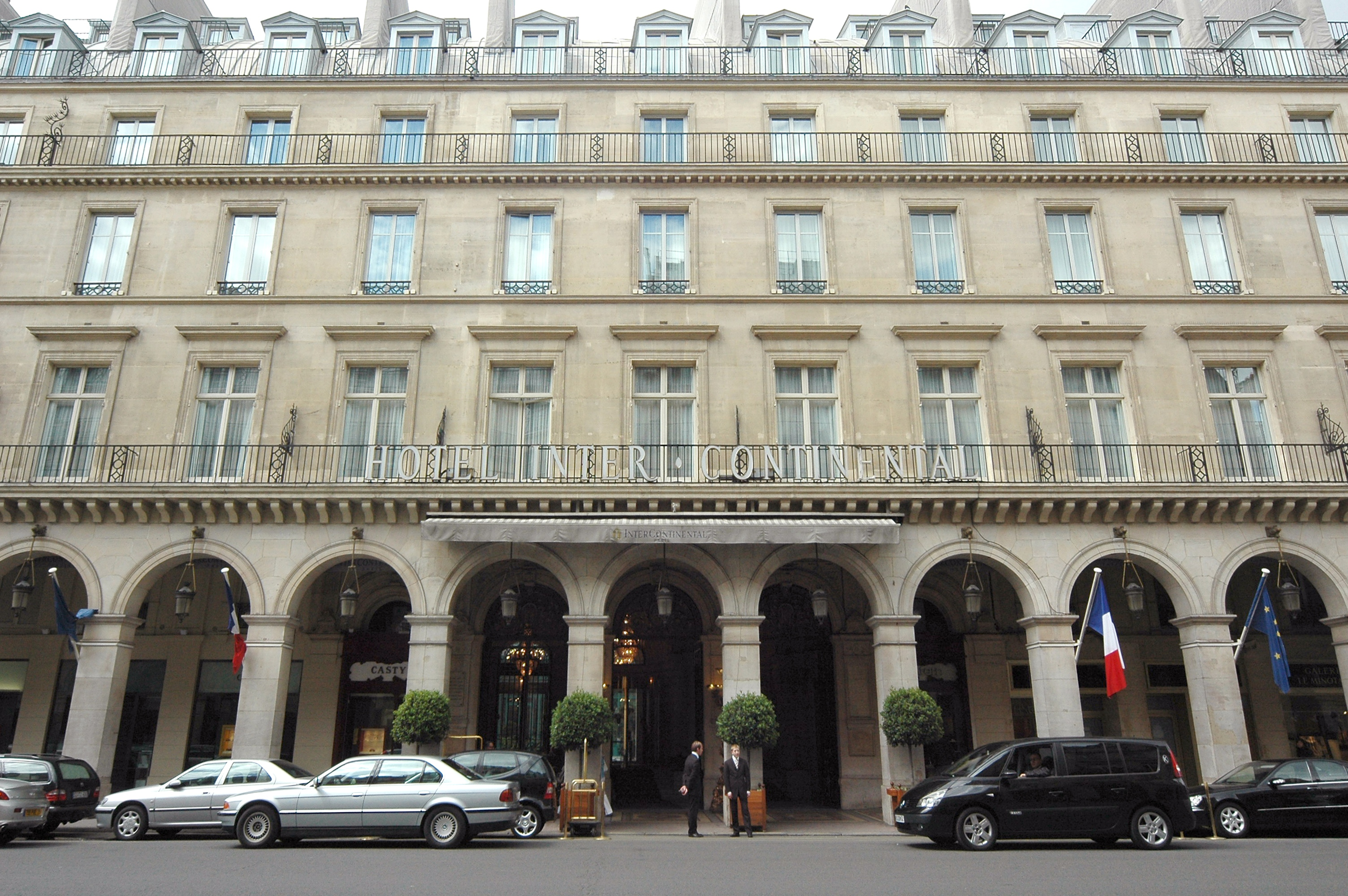 EPP debates on EU Constitution - Paris 8-9 March 2005, Hôtel Intercontinental (now Westin Paris), rue de Castiglione, Paris, France.